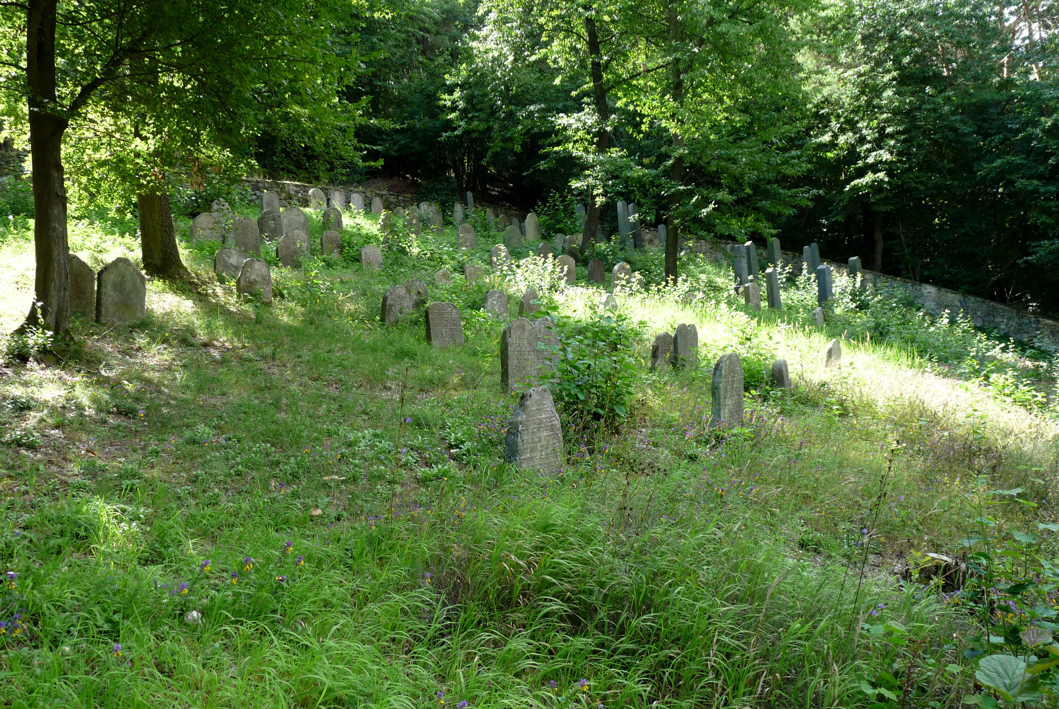 Tombstones at the Jewish cemetery in Bohostice, Příbram District, Central Bohemian Region, Czech Republic.